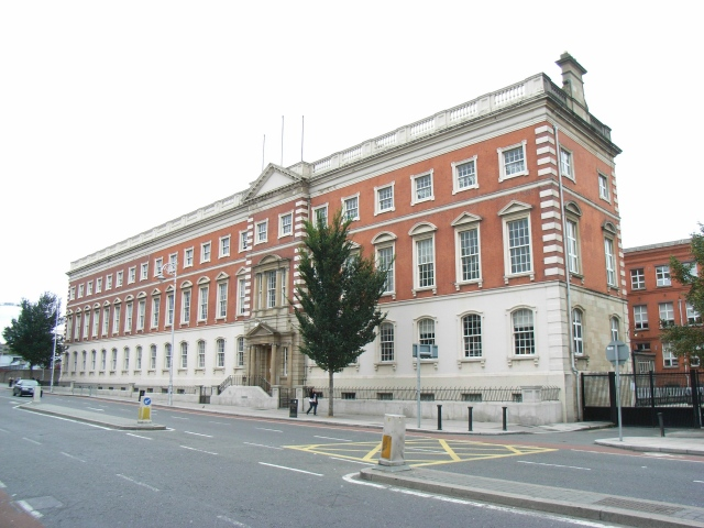 College of Technology, Bolton Street Founded in 1911, it is today part of the Dublin Institute of Technology (DIT) and home to students of mechanical and civil engineering, environmental planning, architecture and construction skills.